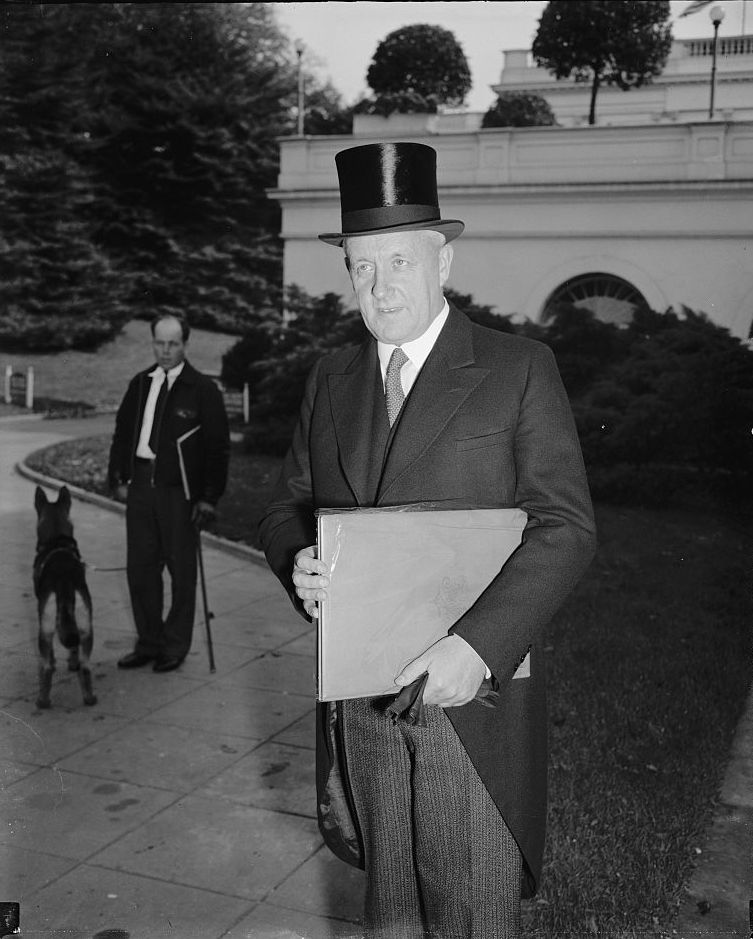 Eero Järnfelt, the Minister from Finland, shown entering the White House with postage stamps printed in Finland to commerce the landing of the Finns and Swedes off the Delaware Coast 300 years ago. They were presented to the President with the compliments of the Government of Finland, 10/13/38